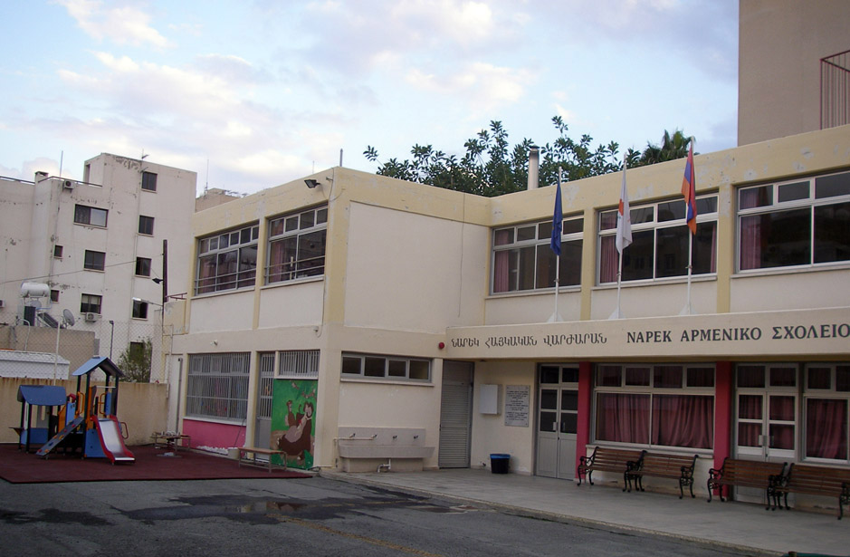 Picture of Nareg Larnaca school.